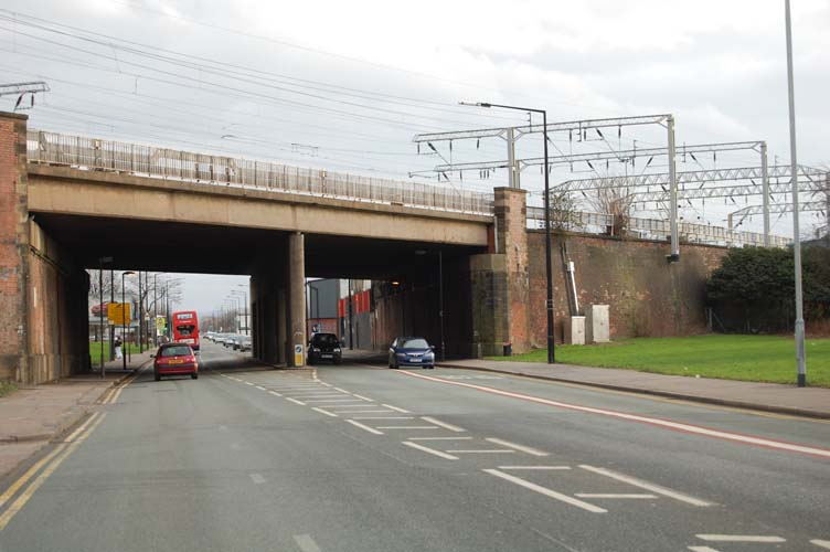 A picture of a railway bridge on Hyde Road Manchester where on September 18th 1867, prisoners were forceably freed and a police officer was shot dead. Please see Wikipedia article entitled Manchester Martyrs.